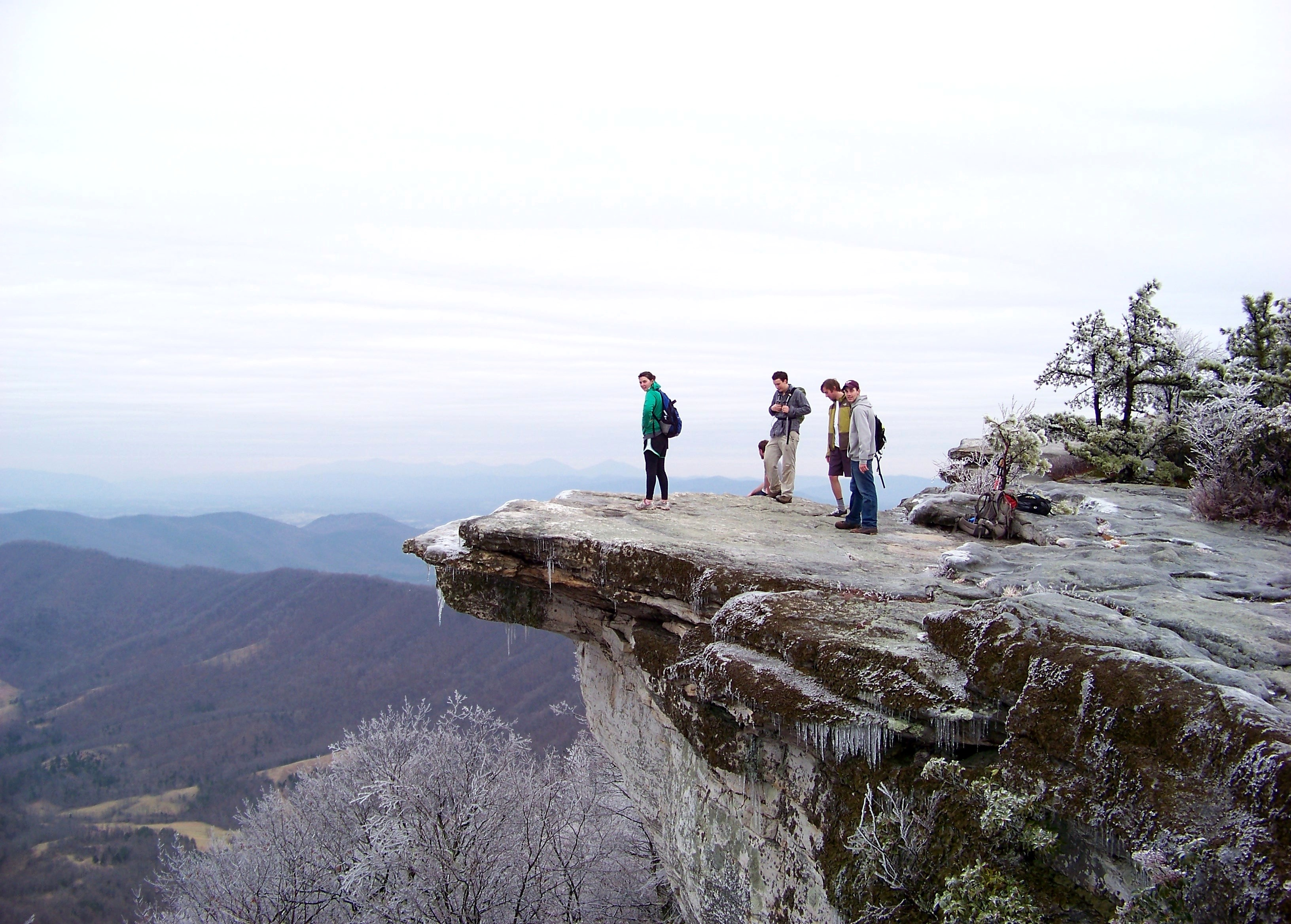 VT Students on McAfee's Knob during winter